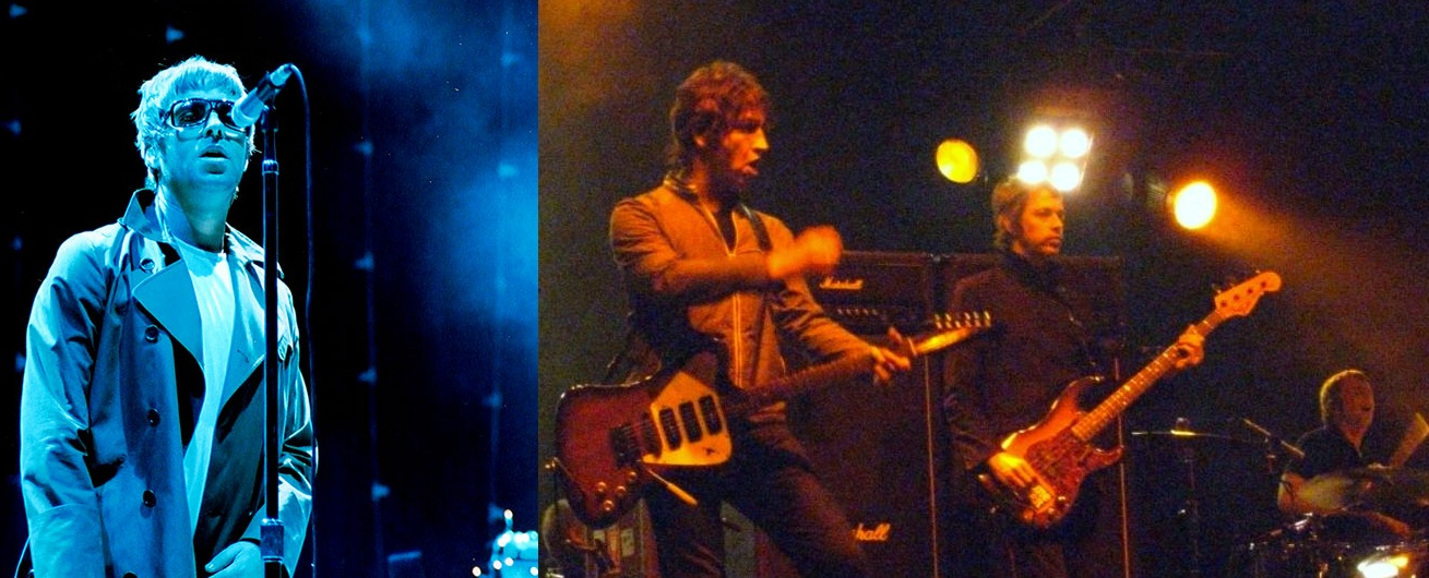 Liam Gallagher (San Ysidro, CA. 2005.) Oasis (Hong Kong, China 2009), depicted as offshoot band Beady Eye.